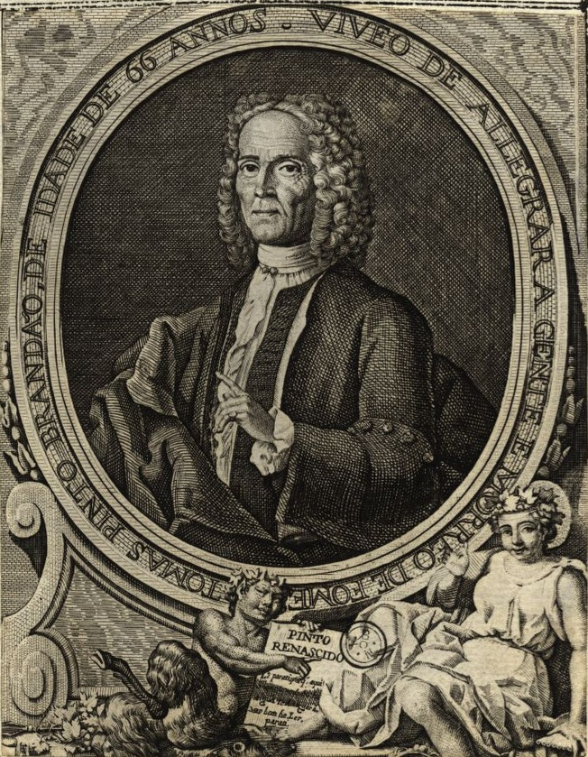 Tomás Pinto Brandão (1664-1743), Portuguese poet.